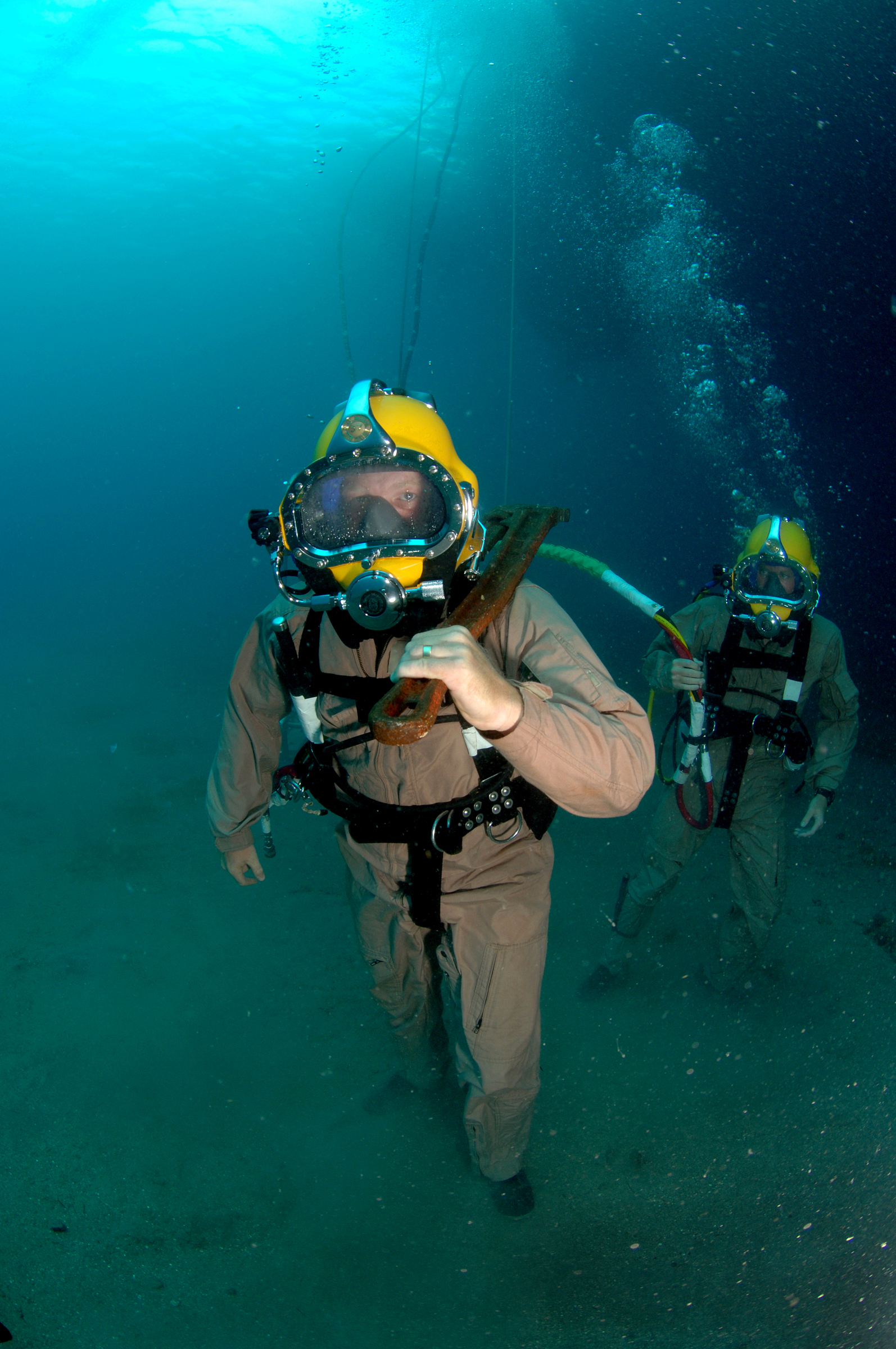 Navy Diver 1st Class Johnelisha Andrews, assigned to Mobile Diving and Salvage Unit (MDSU) 2, walks across the seabed with a pipe wrench during a dive supporting Navy Dive Global Fleet Station 2008 off the coast of St. Kitts.